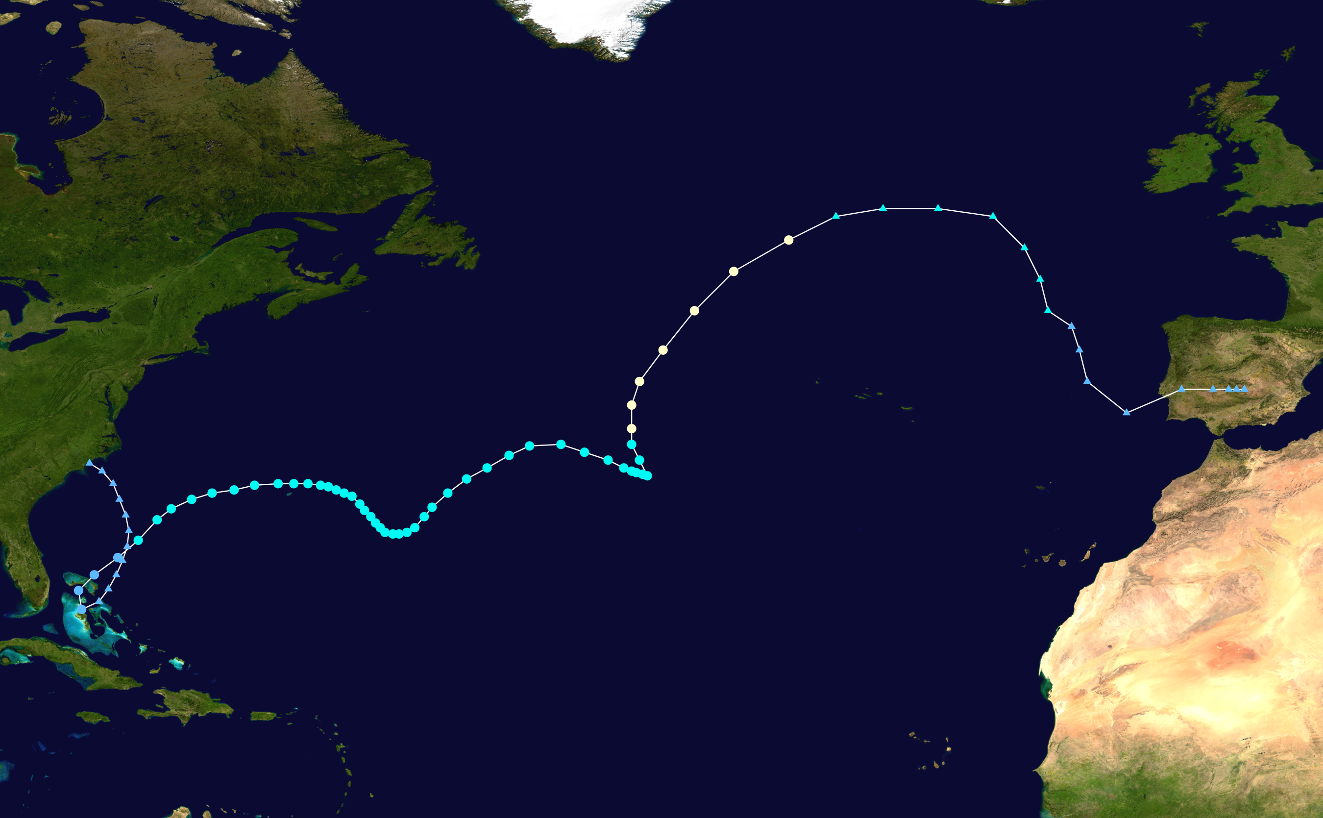 Hurricane Arlene (1987) track. Uses the color scheme from the Saffir-Simpson Hurricane Scale.